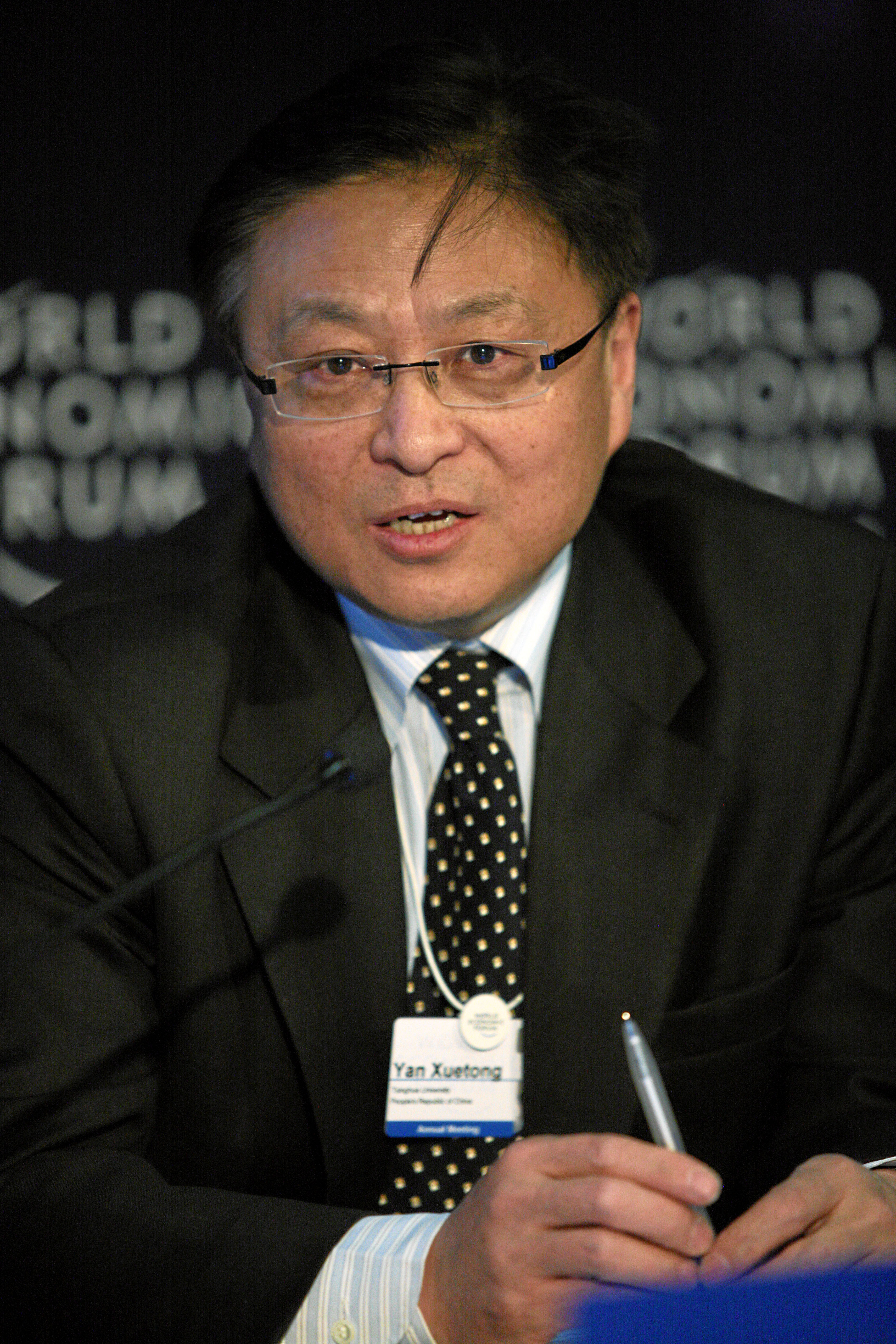 DAVOS/SWITZERLAND, 26JAN11 - Yan Xuetong, Dean, Institute of International Studies, Tsinghua University, People's Republic of China; Regional Agenda Council on China speaks on during the session 'The Security Agenda in 2011' at the Annual Meeting 2011 of the World Economic Forum in Davos, Switzerland, January 26, 2011. Copyright by World Economic Forum by Remy Steinegger